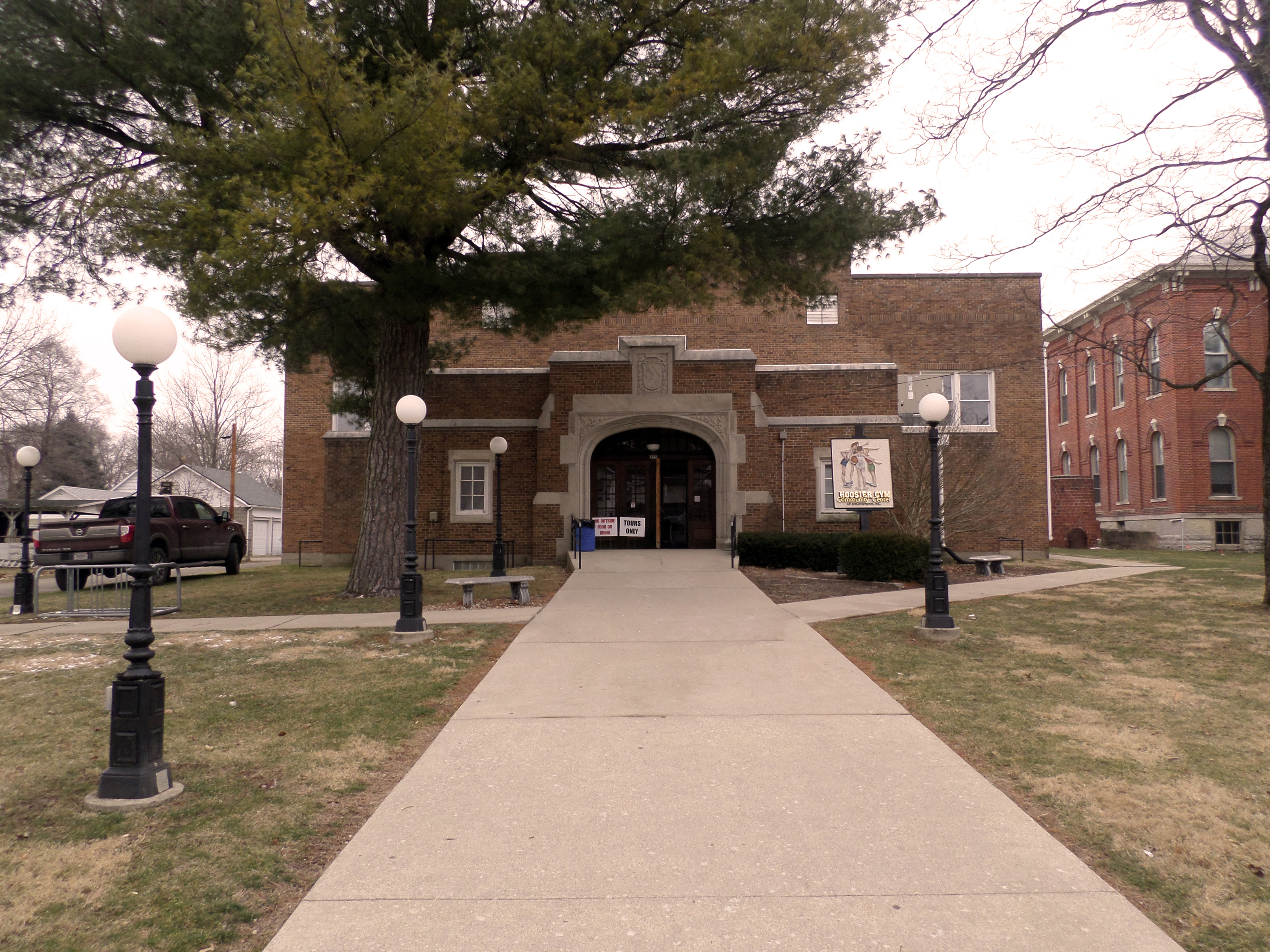 Exterior of Hoosier Gym in January, 2017.